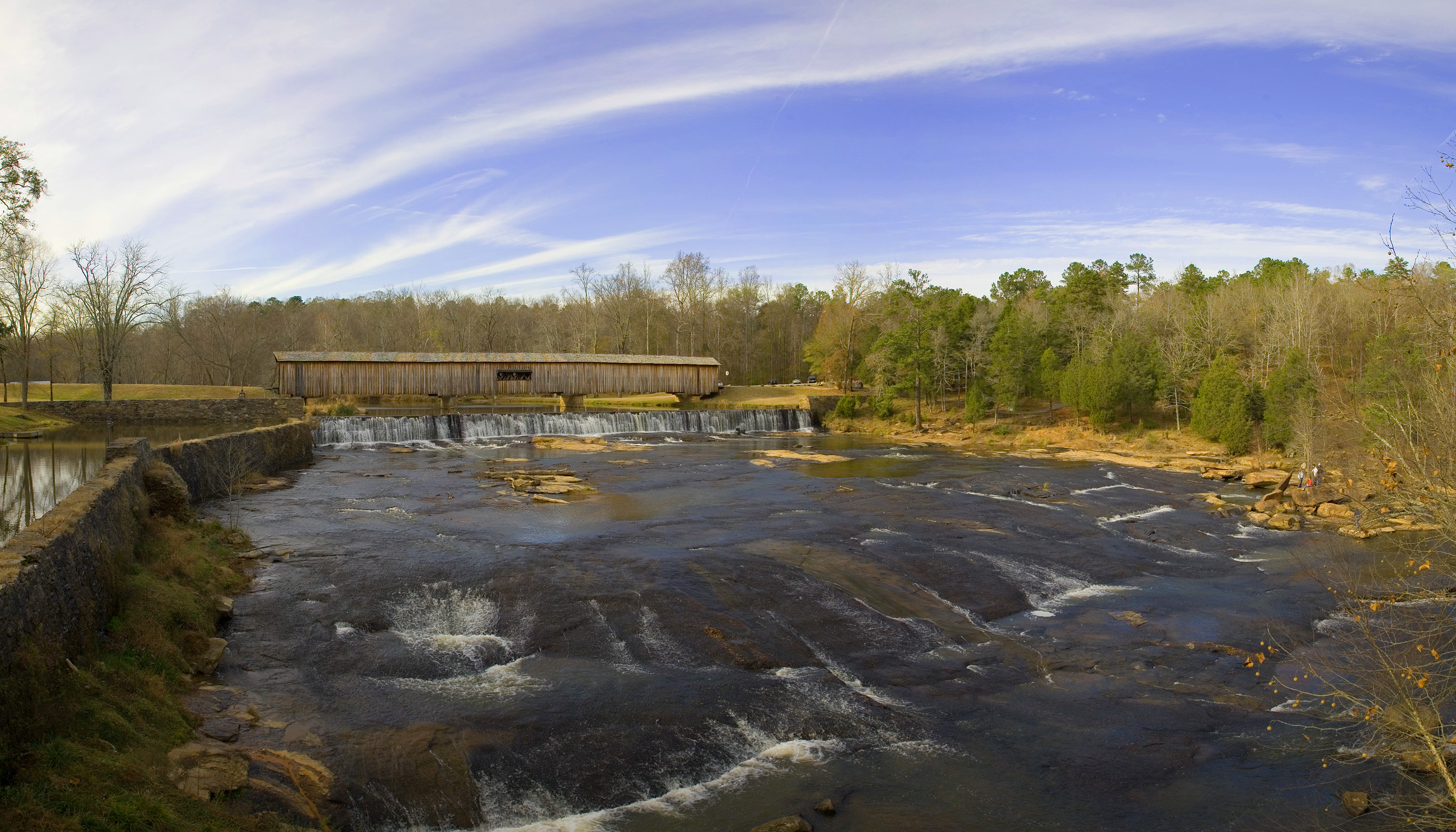 Watson Mill State Park in late fall, 26th November, 2005. This image is a segmented panorama of three photos taken in portrait format with a Canon 5D and 24-105mm f/4 IS lens.